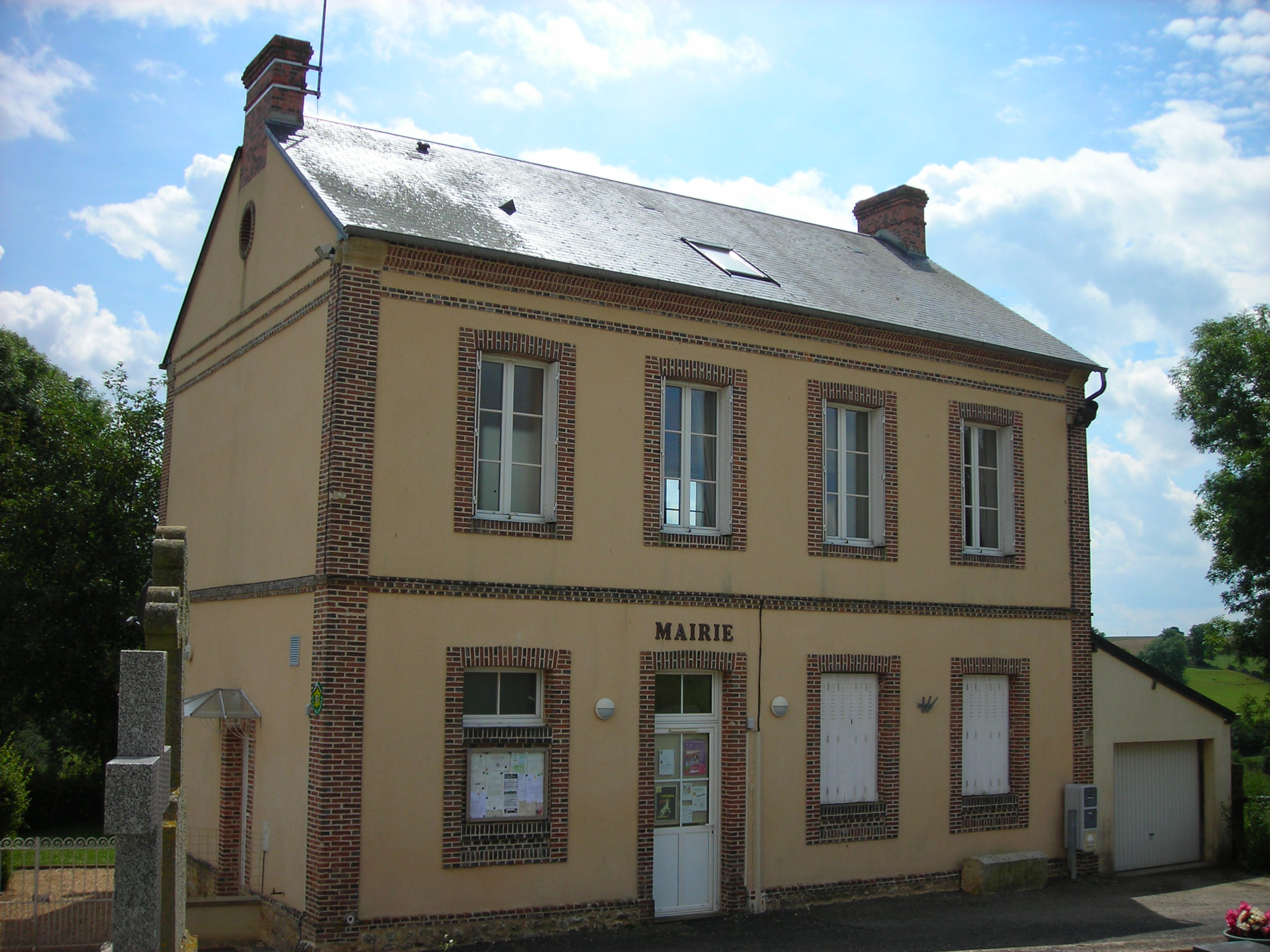 Town hall of Fay (Orne,France)